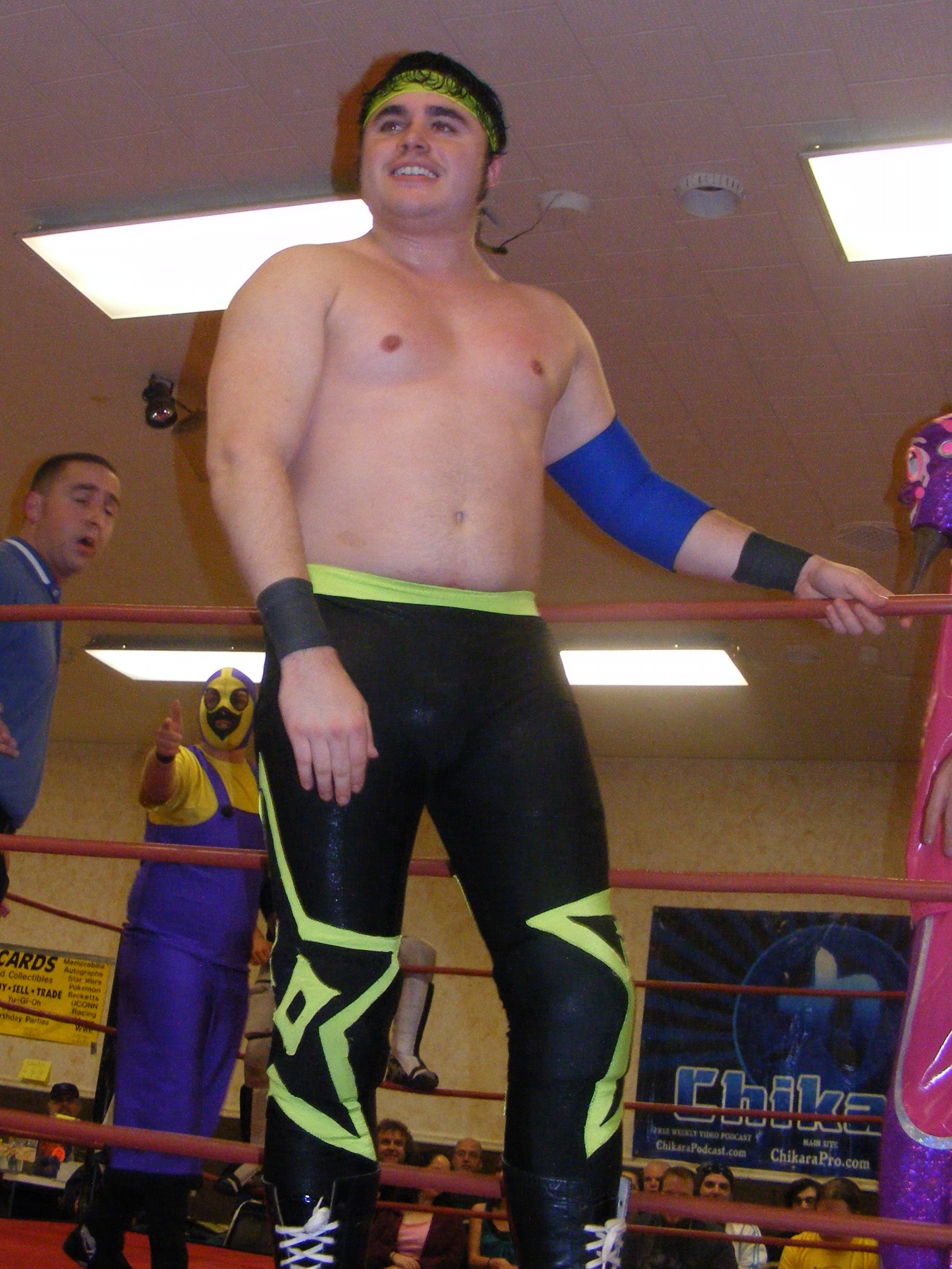 Professional wrestler Shane Matthews at a Chikara event